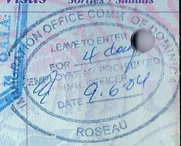 Scan of Dominica entry stamp